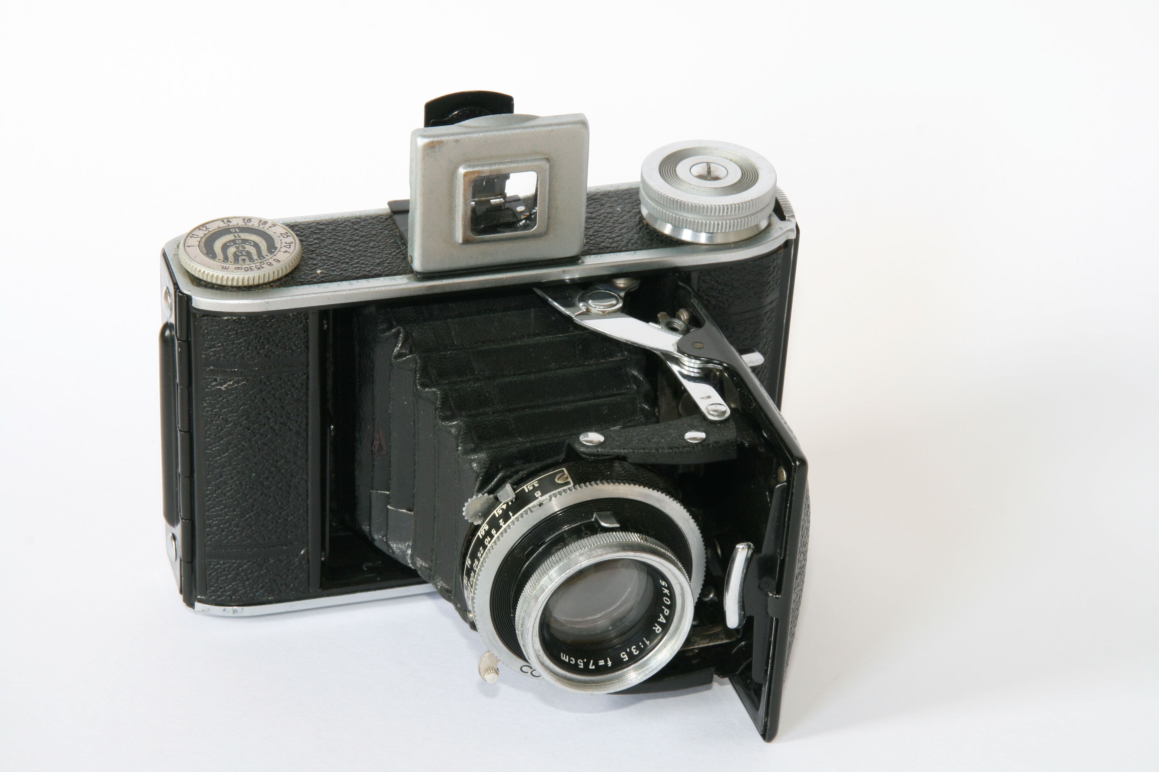 Voigtländer Bessa 66. Lower left: leak in bellows fixed by adhesive tape